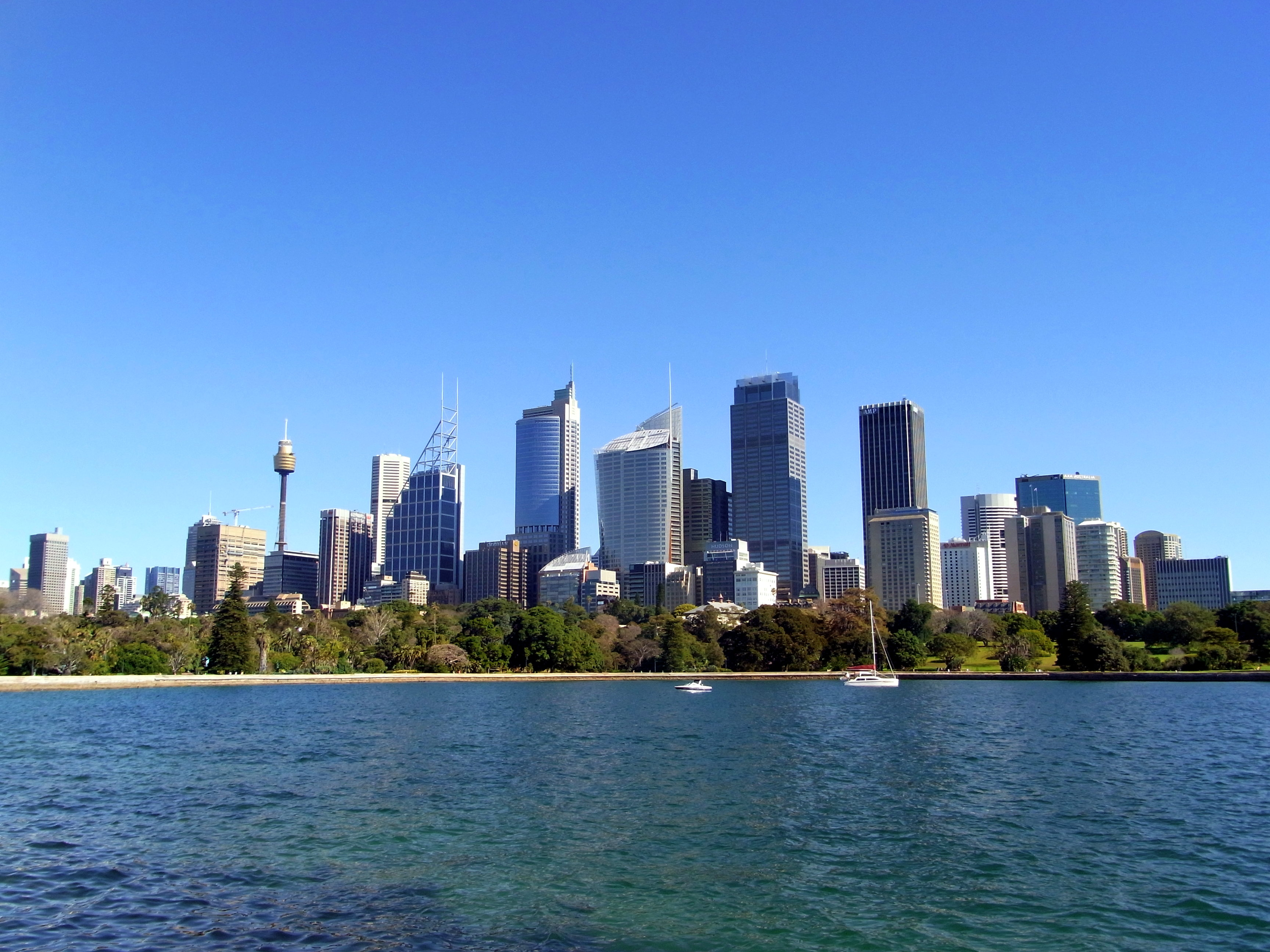 Sydney City, Australia as seen from a ferry.